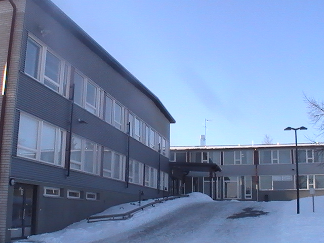 Säkylän yhteiskoulu (middle- and high school) at March 2013. The school building's oldest part has builded in 1950's and later one at left in 1970's, but they got a clearance at years 2010 and 2011.